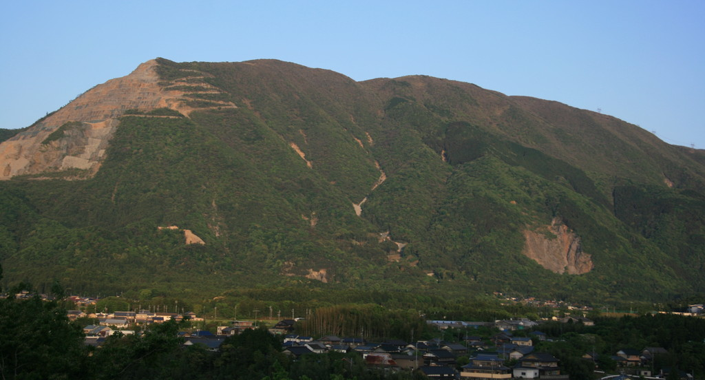 Hujiwaradake_from_ninose_2_2010_5_15